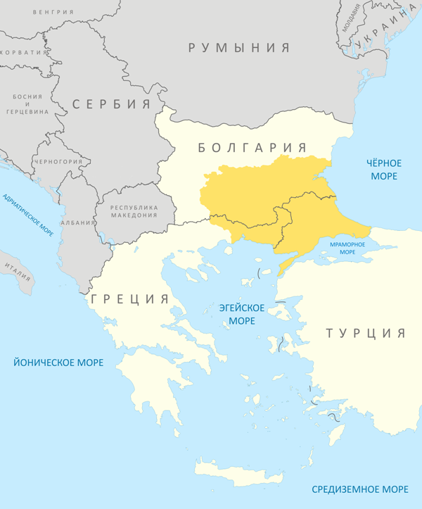 Thrace and present-day state borderlines revised